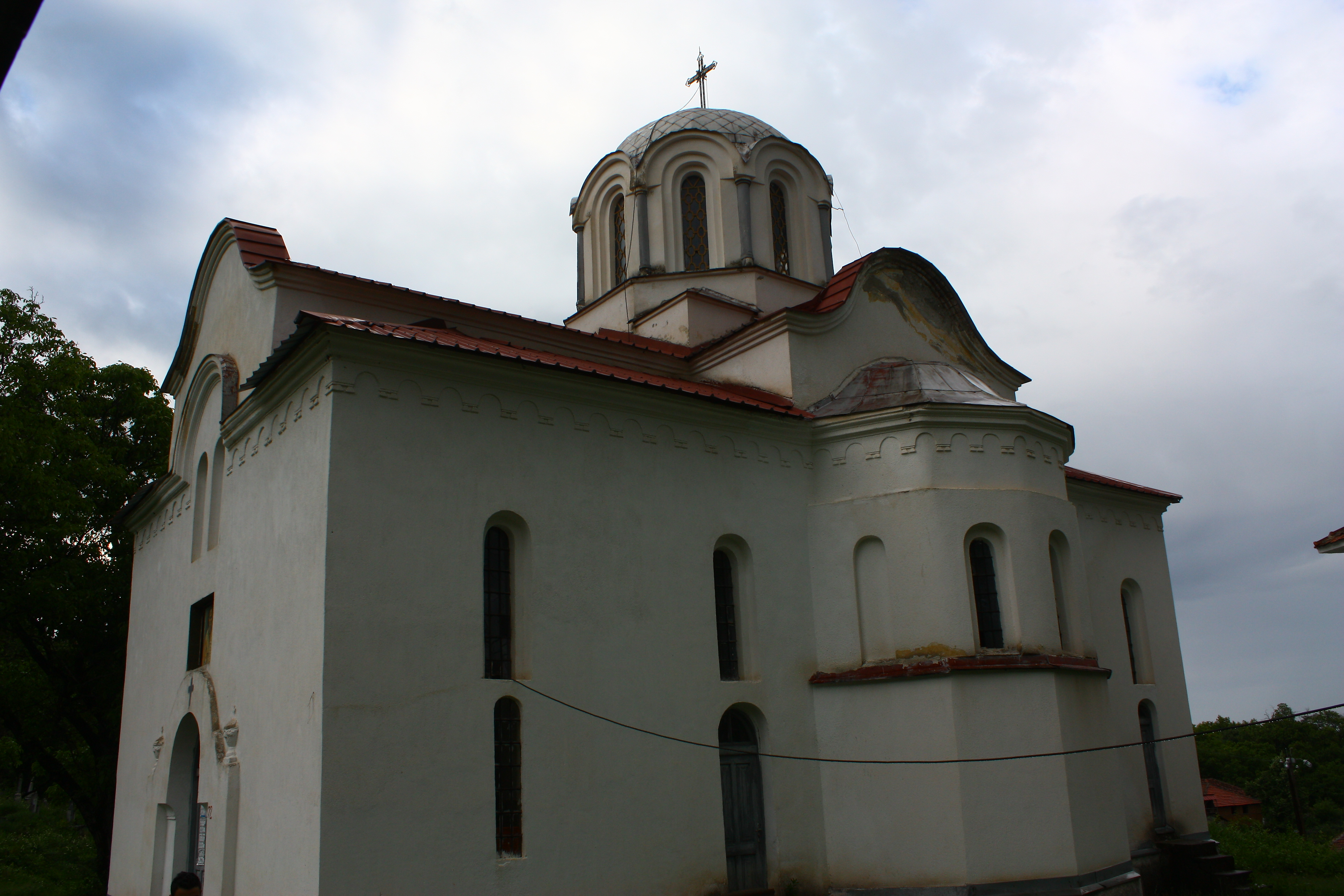 St. Nicholas Church in Požarane, Macedonia